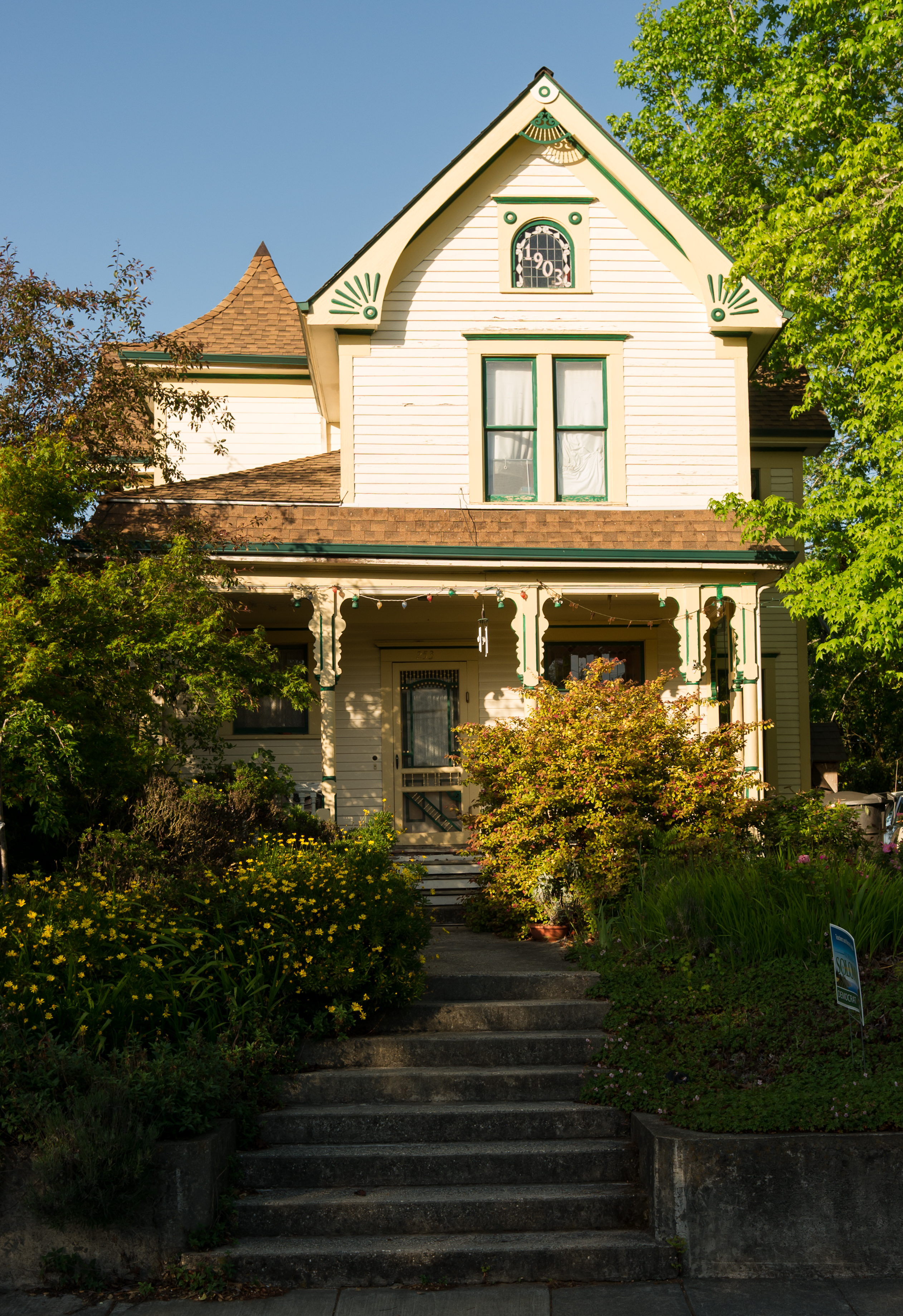 The front exterior of the George A. Strout House in Sebastopol, California.